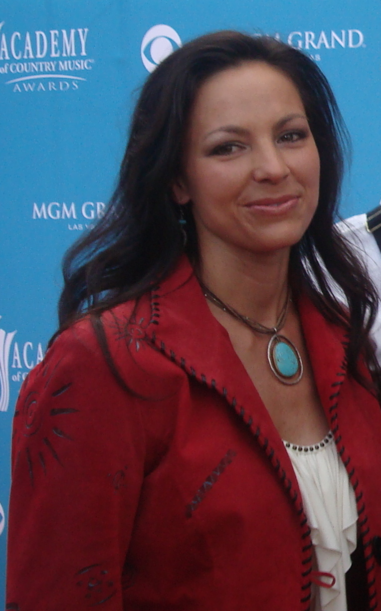 Country music duo Joey + Rory being interviewed by Allison Demarcus.